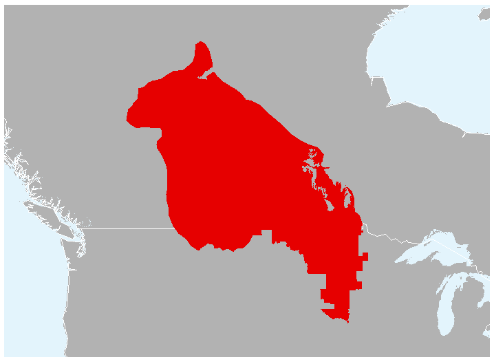 Range map for Anaxyrys hemiophrys